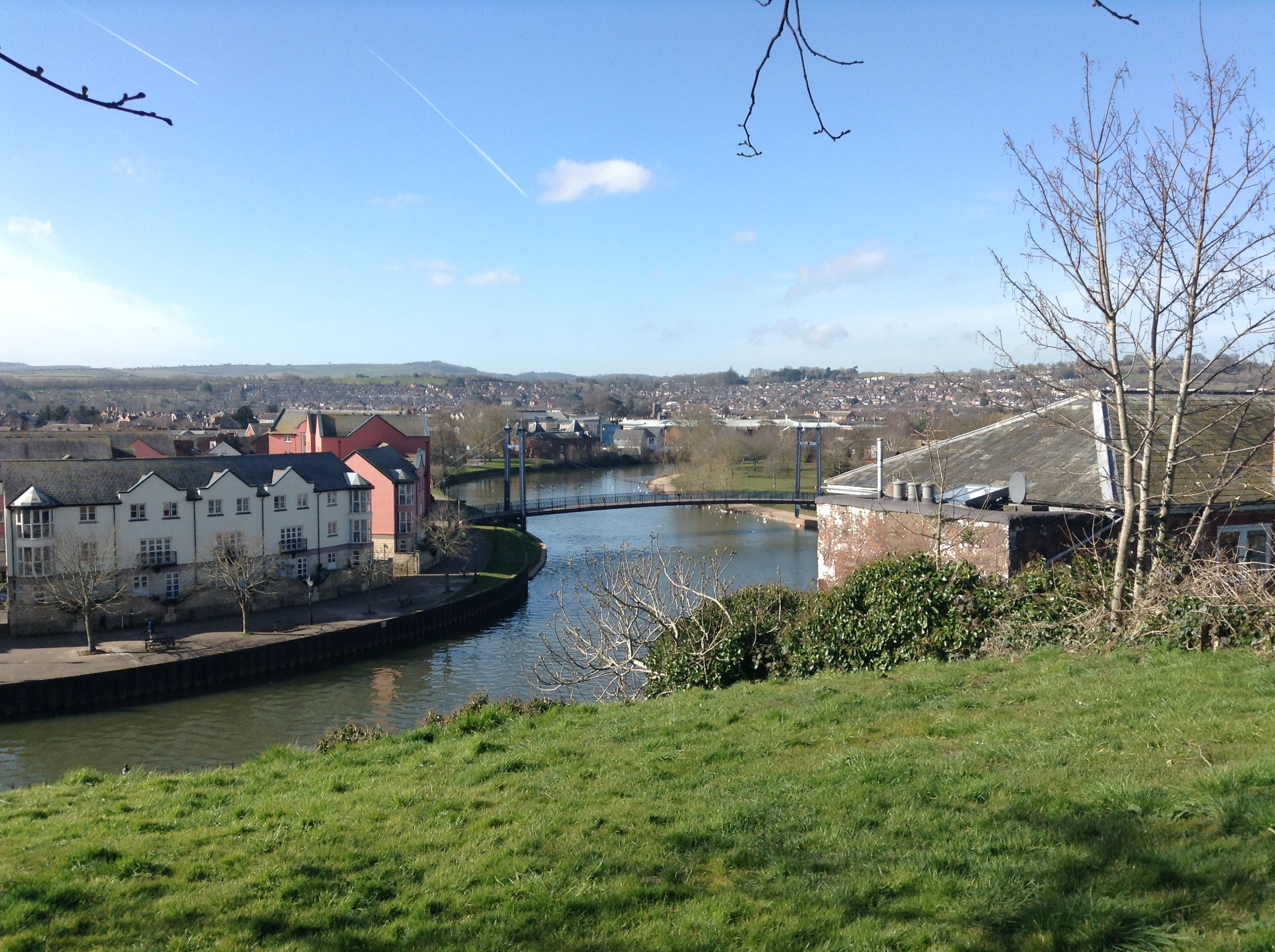 The River Exe at Exeter Quay. Cricklepit Bridge is seen in the middle.